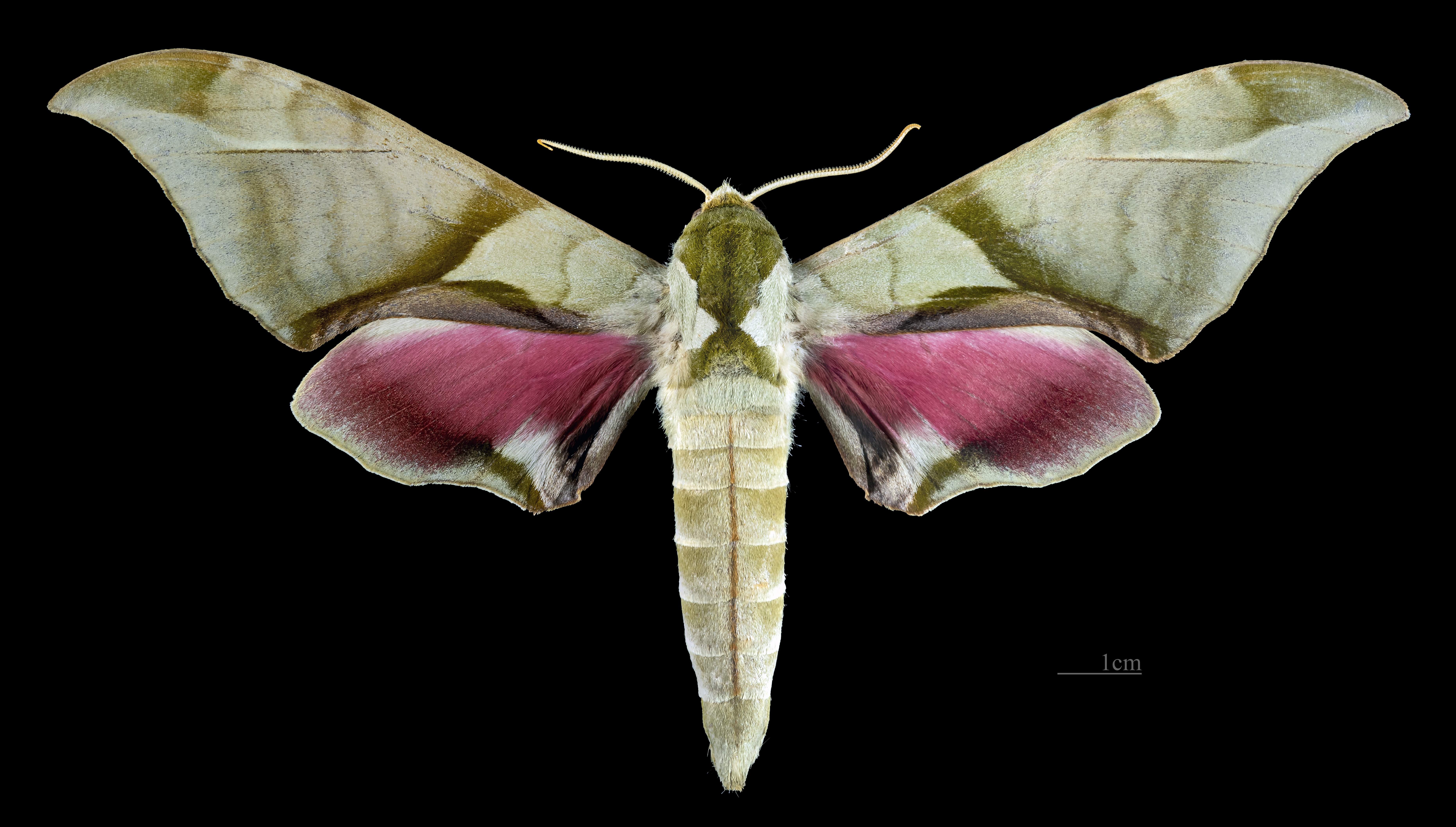 Callambulyx poecilus - Dorsal side Collection of the Mathematician Laurent Schwartz